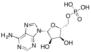 Molecule AMP